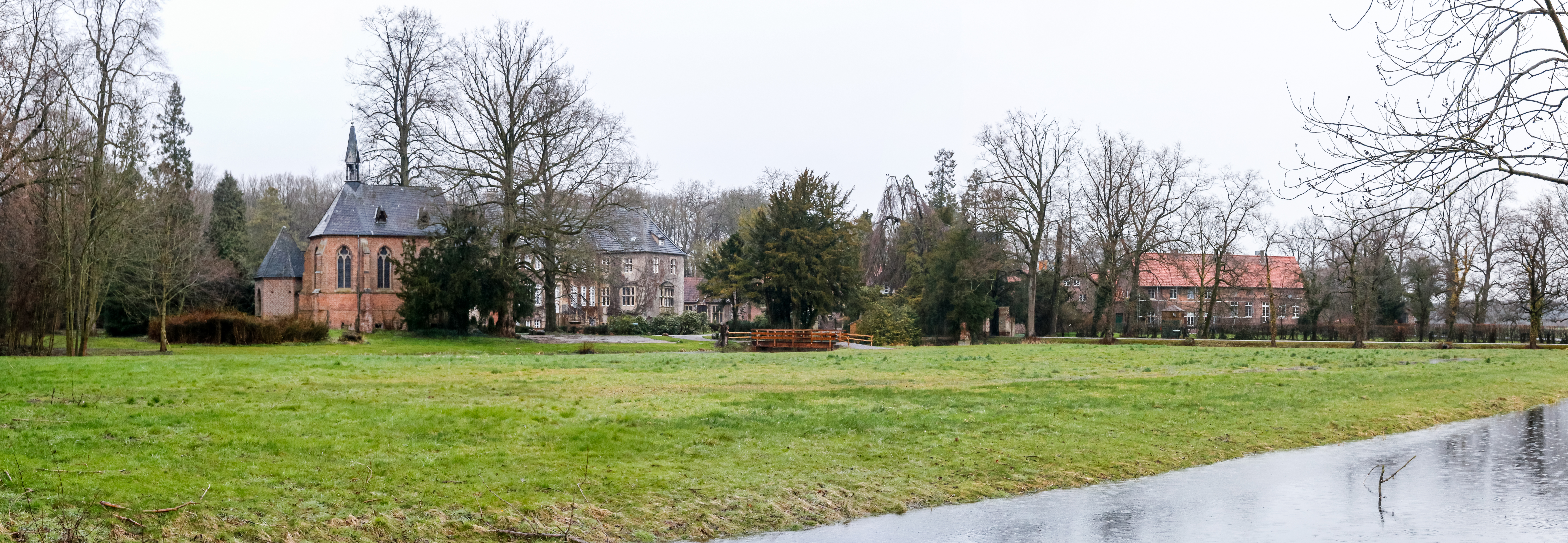 Ruhr Manor, Bösensell, Senden, North Rhine-Westphalia, Germany This image shows a heritage building in Germany, located in the North Rhine-Westphalian city Senden (Westfalen) (no. 02-23).